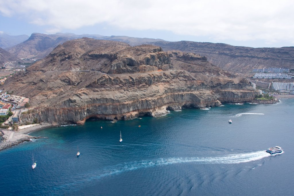 Aerial photograph of cliffs at Mogán on Gran Canaria in the Canary Islands, Spain.